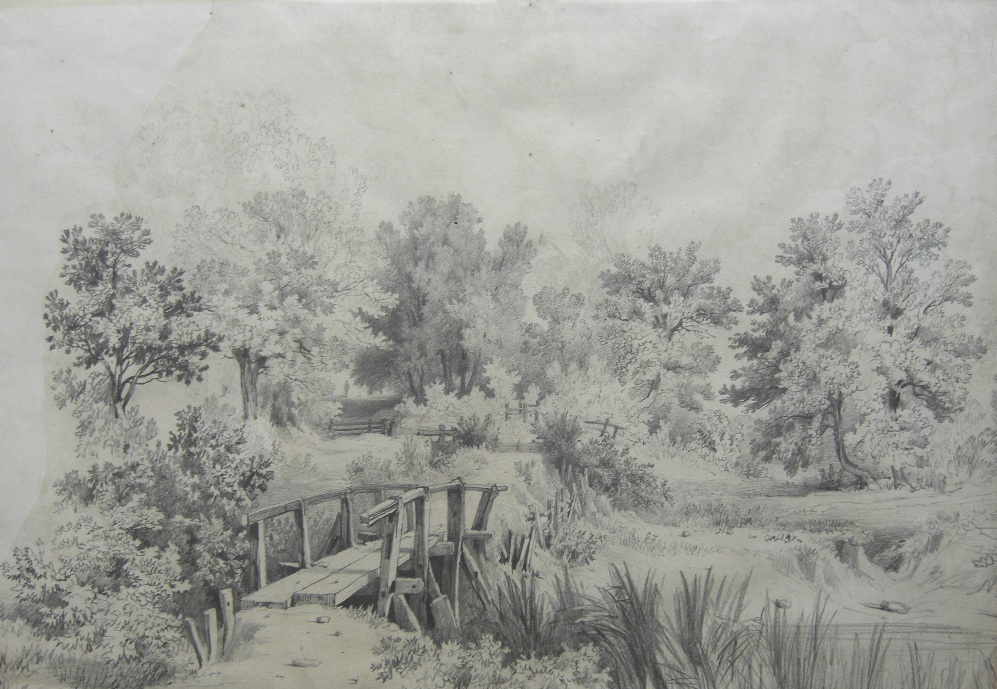 River Cole, Shirley, Warwickshire (now West Midlands), England. Pencil on paper; 580 x 405mm Original in a private collection. See Rediscovering the Lines Family - Exhibition catalogue - 2009.